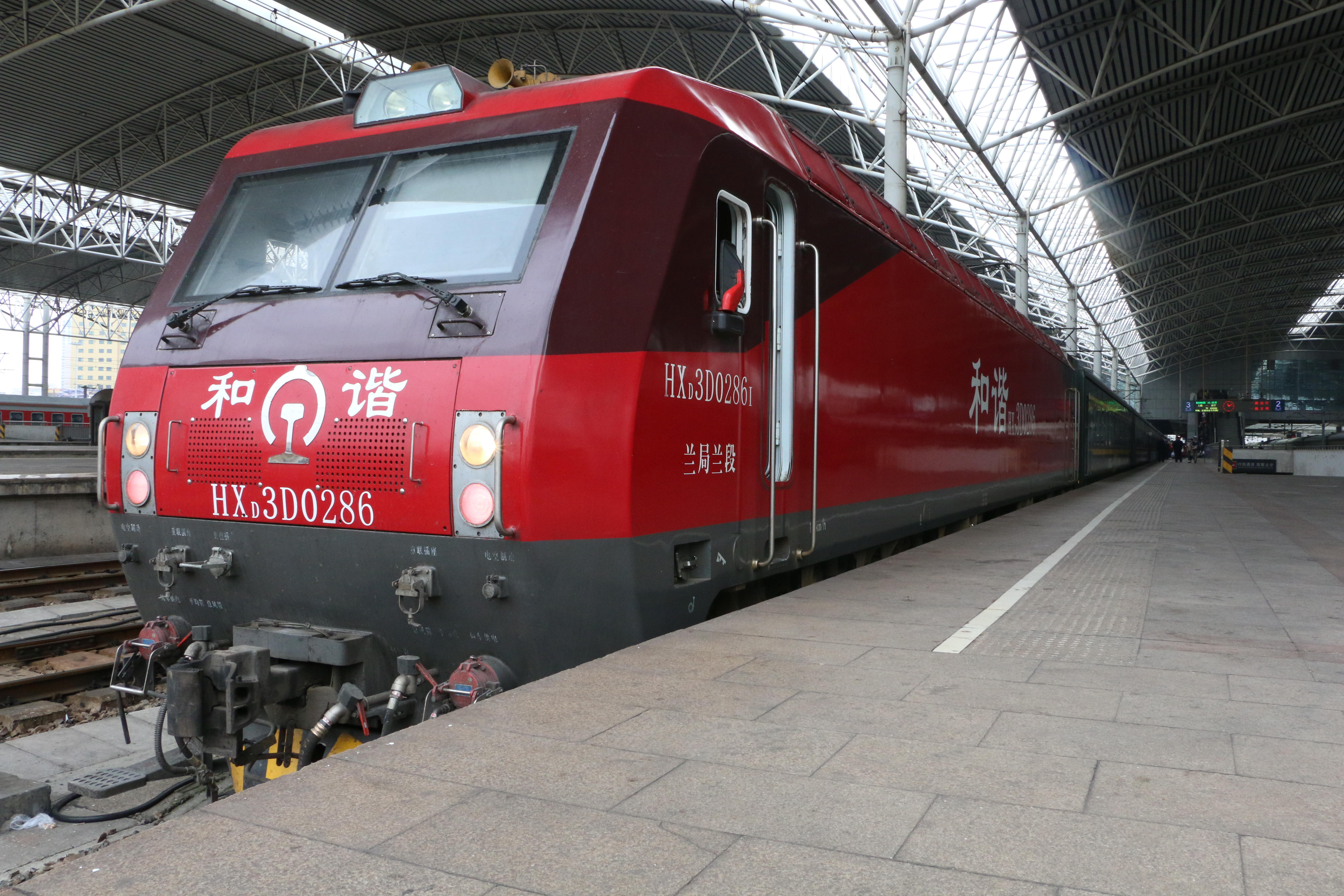 201604 HXD3D-0286 for K2186 at Shanghai Station